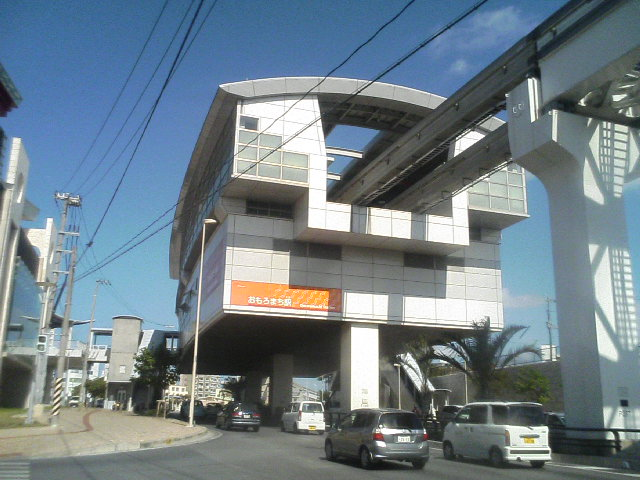 沖縄都市モノレール線w:おもろまち駅 (Okinawa Monorail Omoromachi Station)